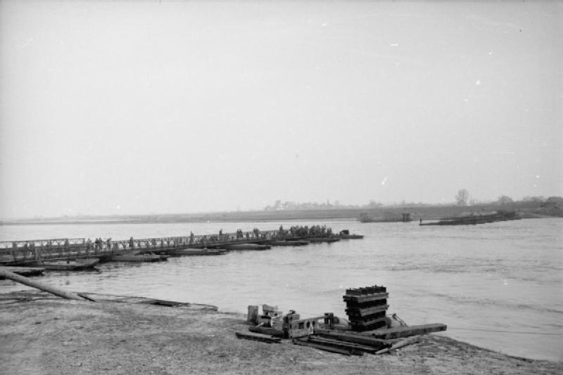 The British Army in North-west Europe 1944-45- Rhine Crossing D plus 1 - the last stages of the building of the first bridges across the Rhine.